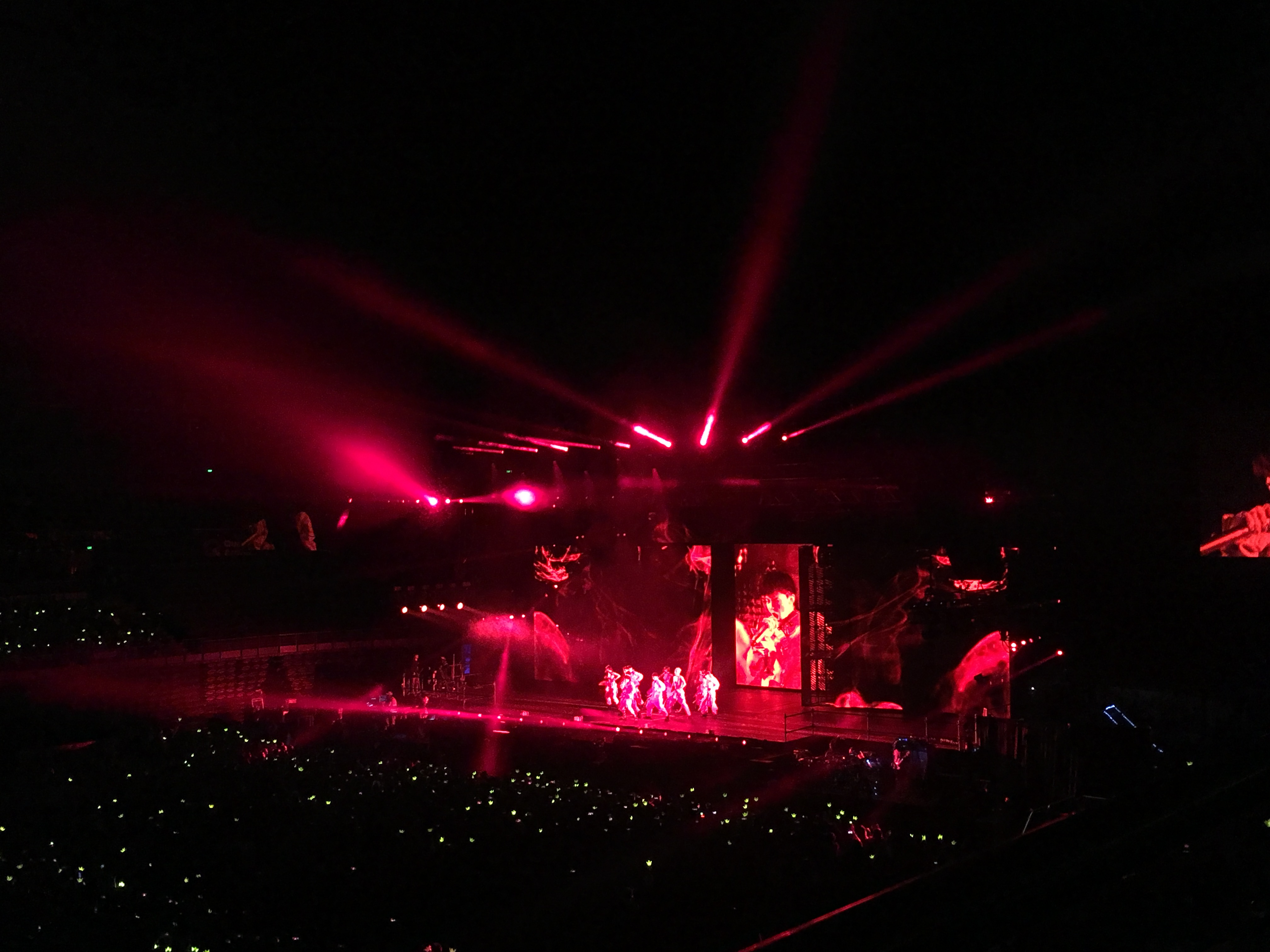 G-Dragon first solo concert in Sydney, Australia on August 5th, 2017